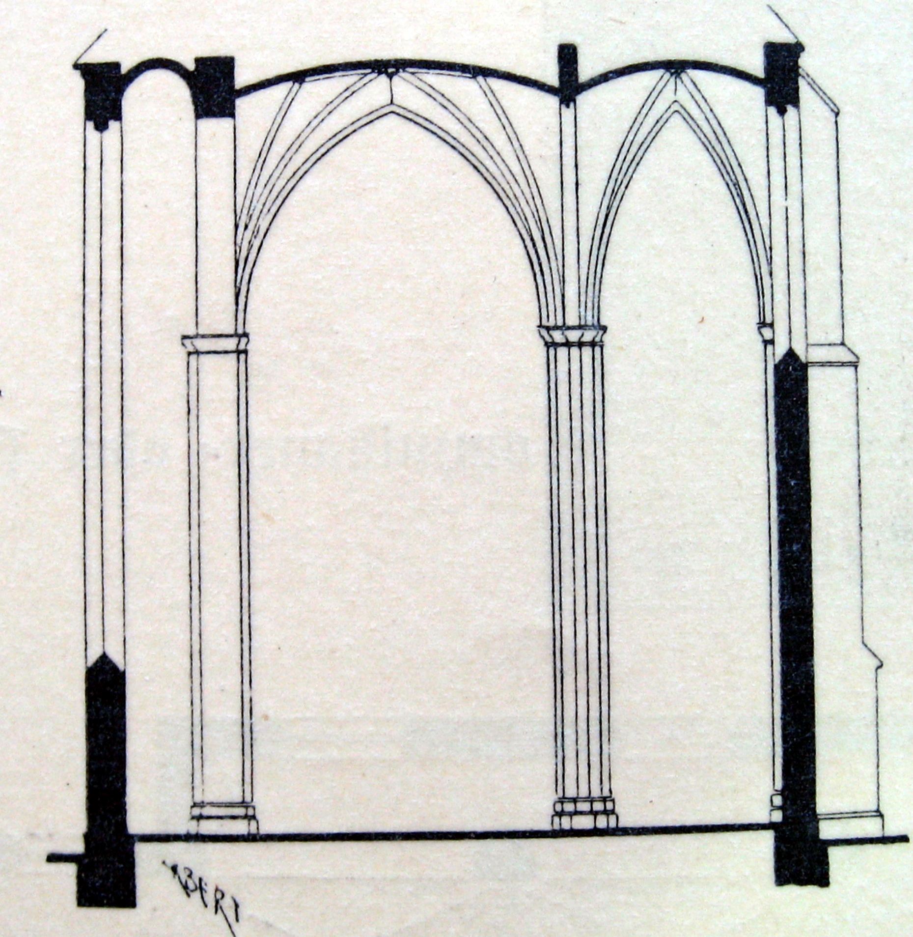 barrel vault - Star vault - cross-ribbed vault